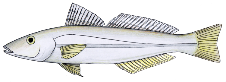 Hand drawn and coloured diagram of the Yellowfin whiting, Sillago schomburgkii. Based partially on McKay (1992) and Hutchins & Swainston (1986) (Descrpitions and colours).